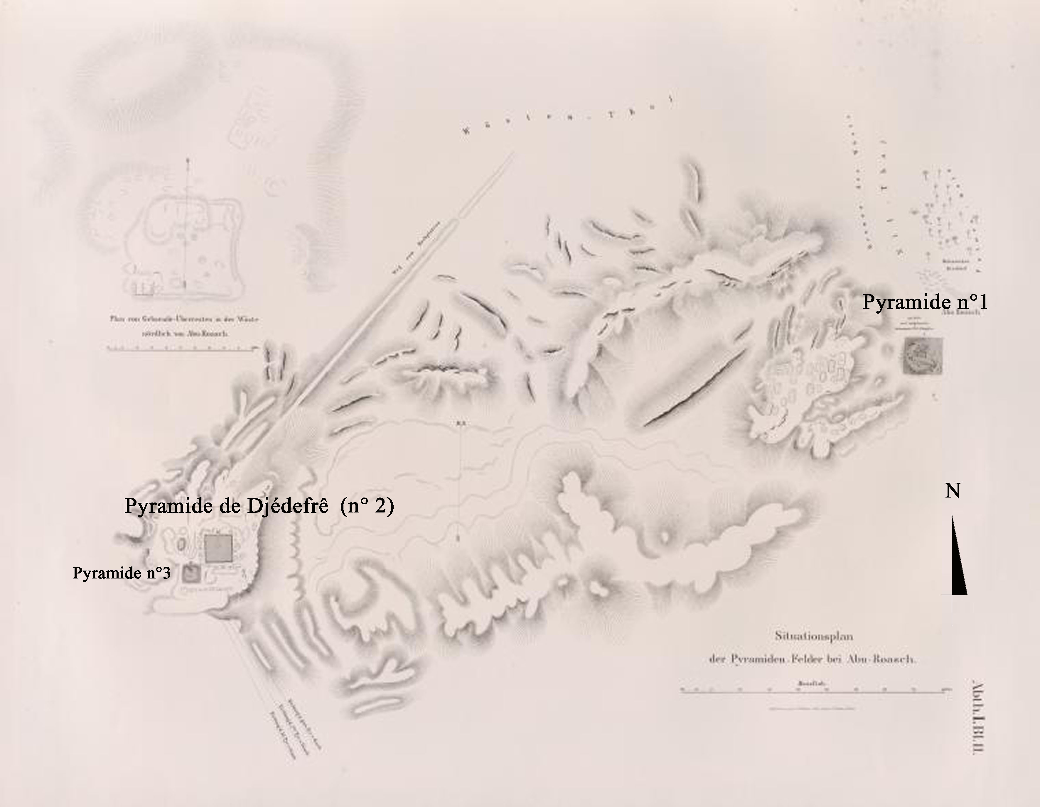 Carte d'Abou Rawash (Karl Richard Lepsius)